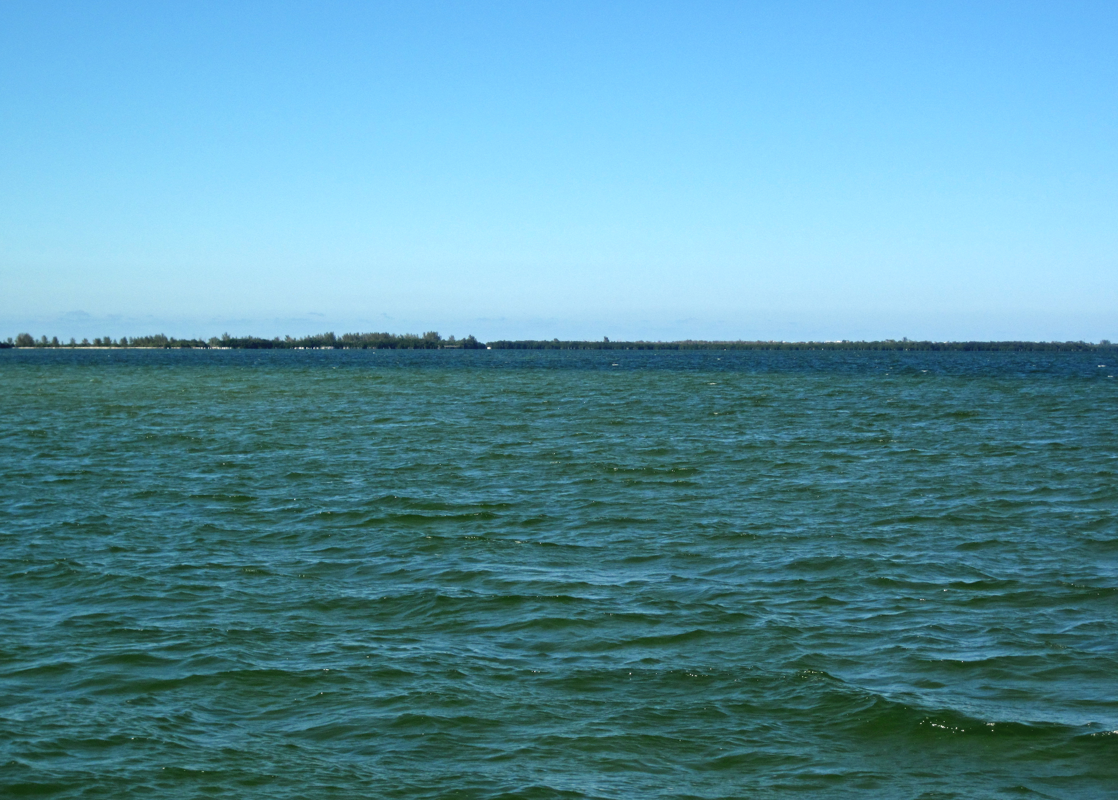 (January 2016) This is Pine Island Sound, a large lagoon just south of Charlotte Harbor along the Gulf of Mexico coast of Florida. On its western and southern sides, this body of water is bordered by barrier islands (e.g., Sanibel Island, Captiva Island, North Captiva Island, Cayo Costa Island). These islands are on the rim of a Late Miocene depression that is now Pine Island Sound. Middle Miocene limestone bedrock was subject to significant dissolution and karst/cave development. The Pine Island Sound area was a large karst depression in the Late Miocene. It is now filled with sediments - most of modern Pine Island Sound is significantly shallow.